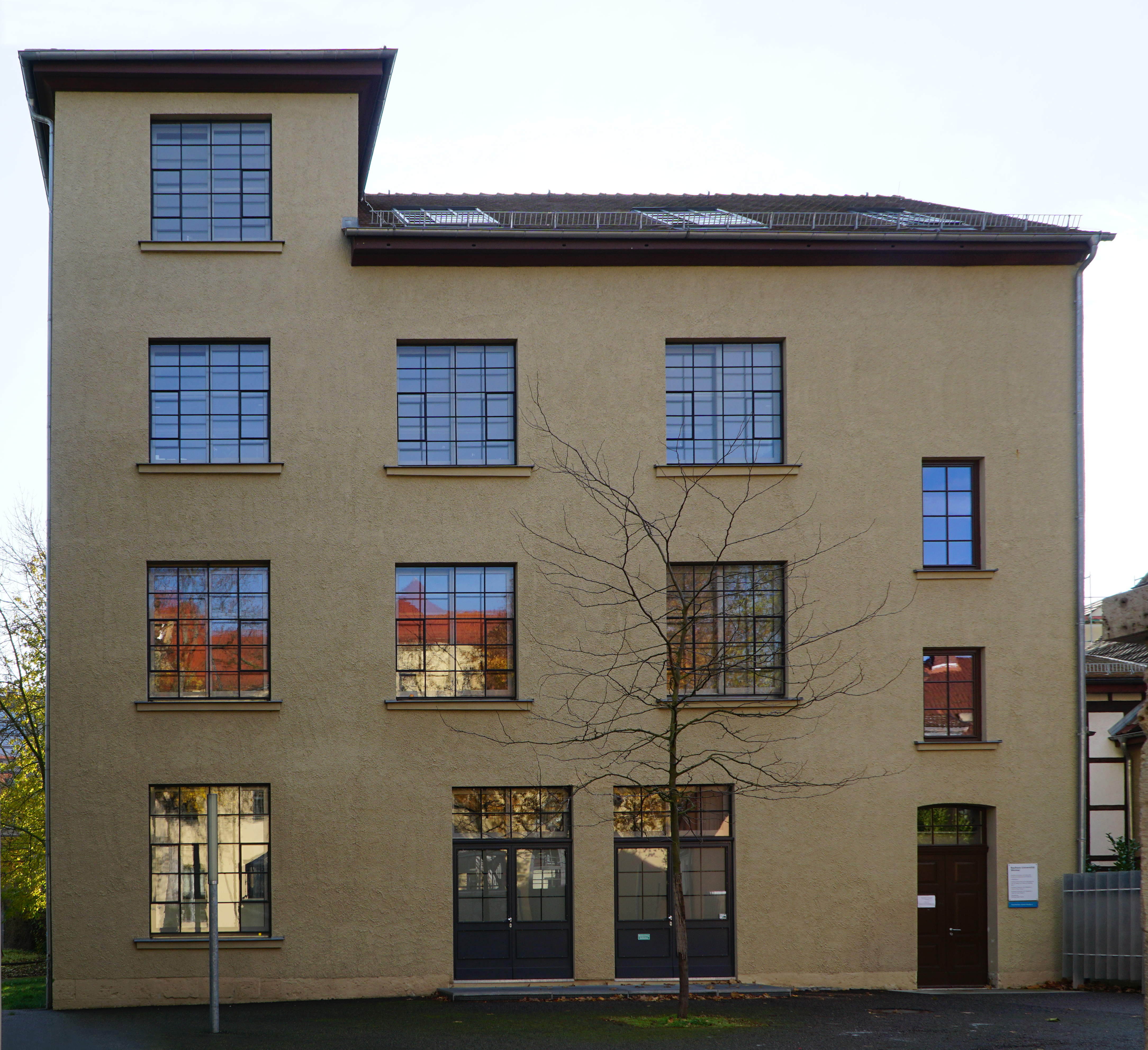 a photograph of the building housing studios named after the original owner (Louis) Preller